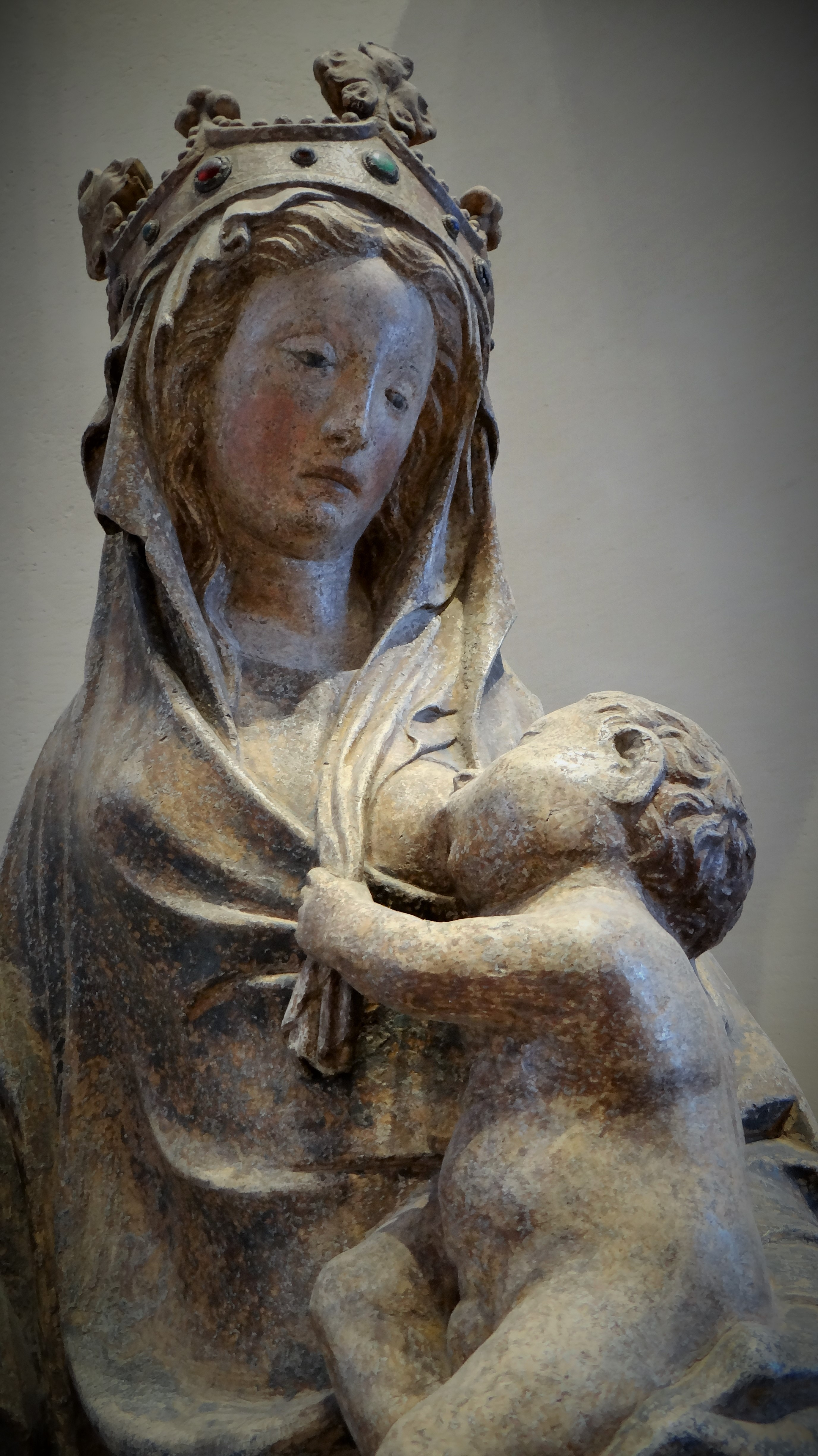 The Virgin nursing the Christ Child, polychorled stone (Picardy chalk), near 1400.